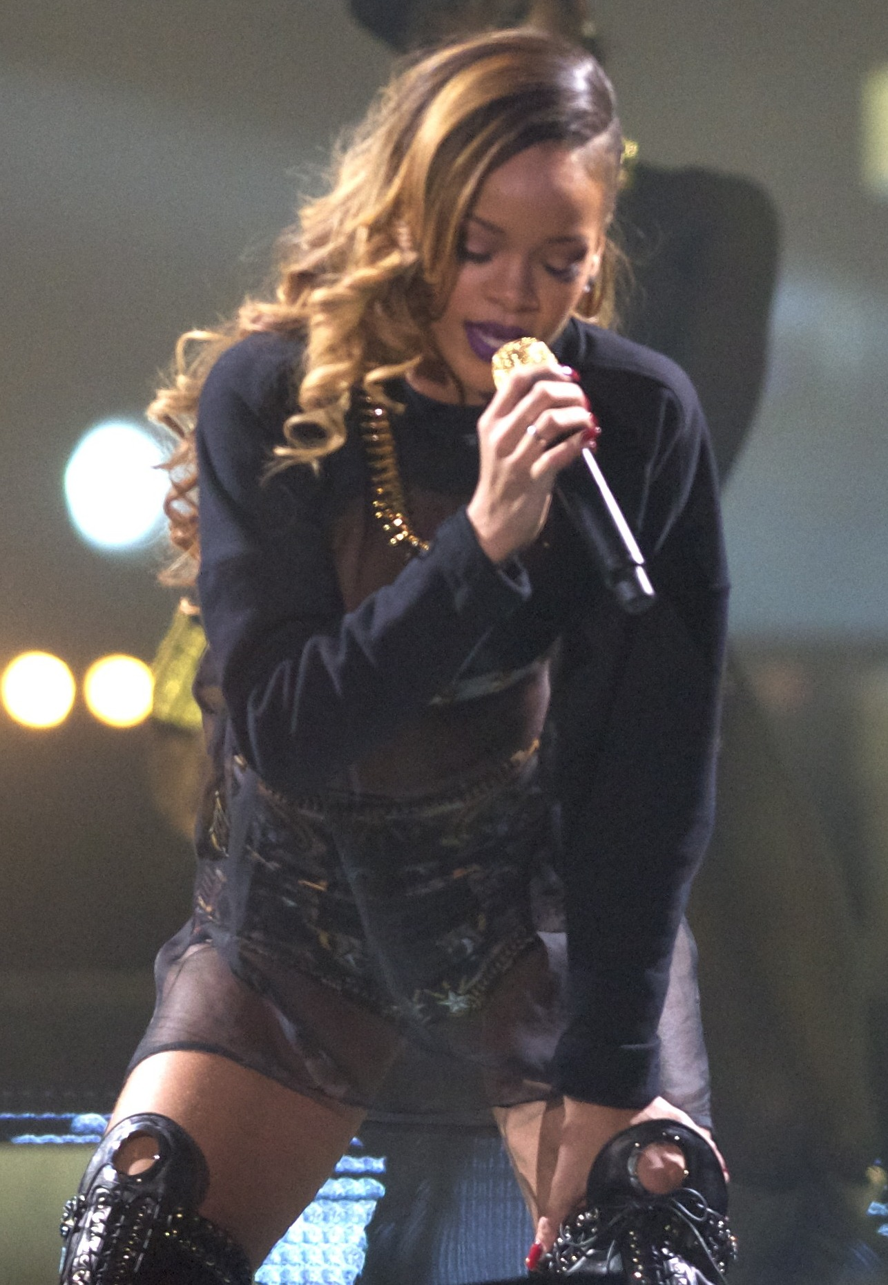 Rihanna performing Diamonds World Tour at the Xcel Energy Center, 24 March 2013.